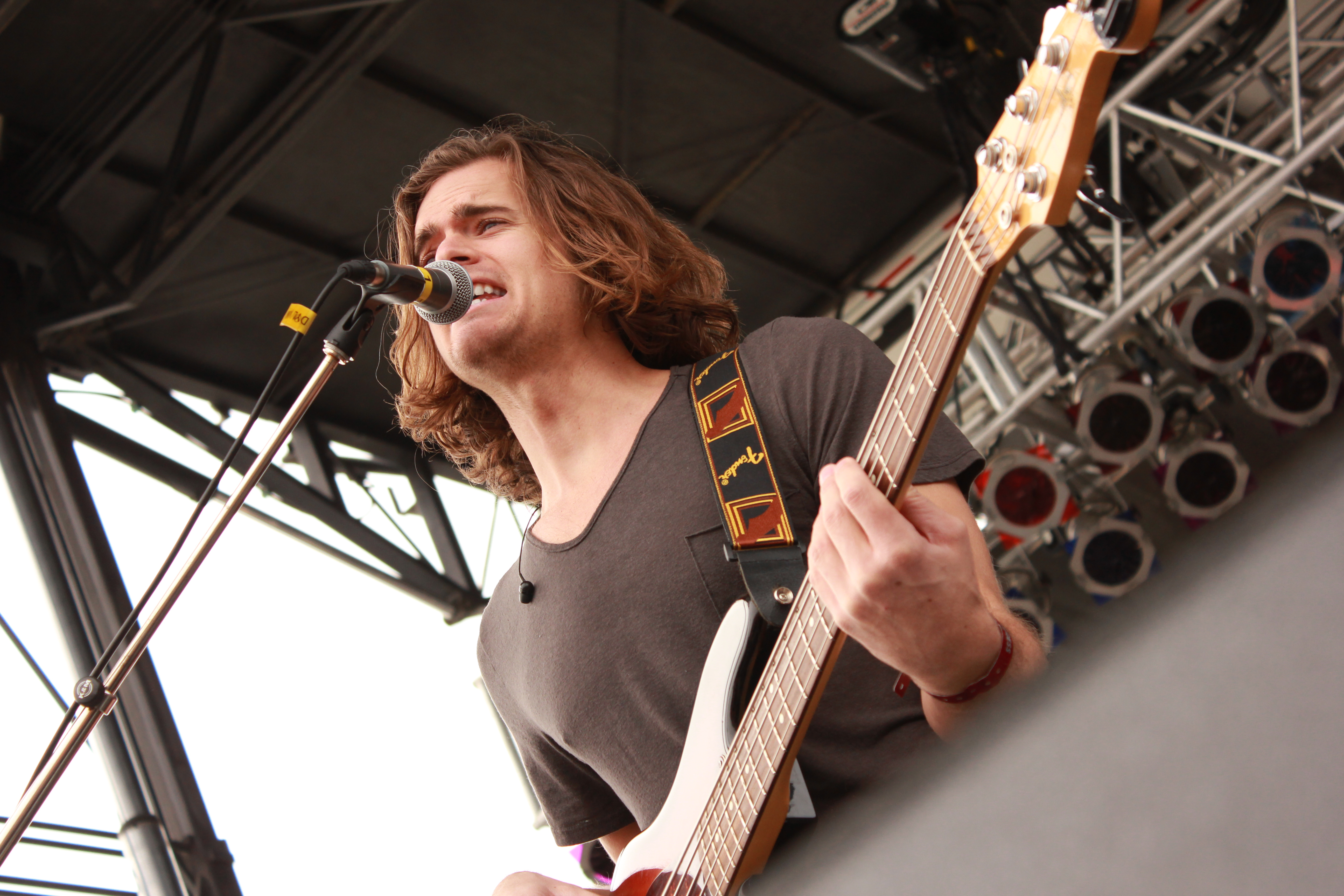 Dylan Kongos, member of the South African alternative rock band "Kongos"